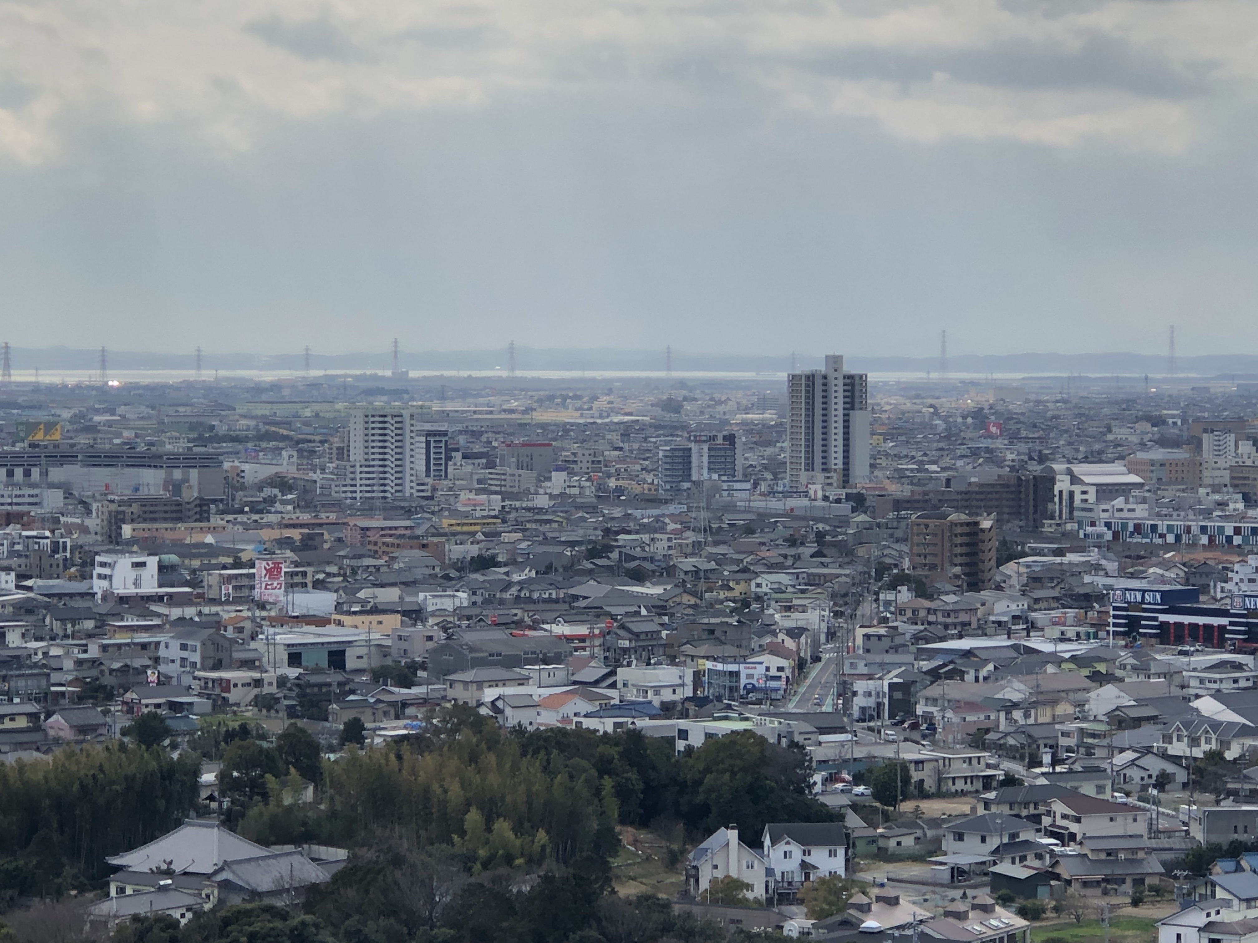 from Mount Yatsuomote